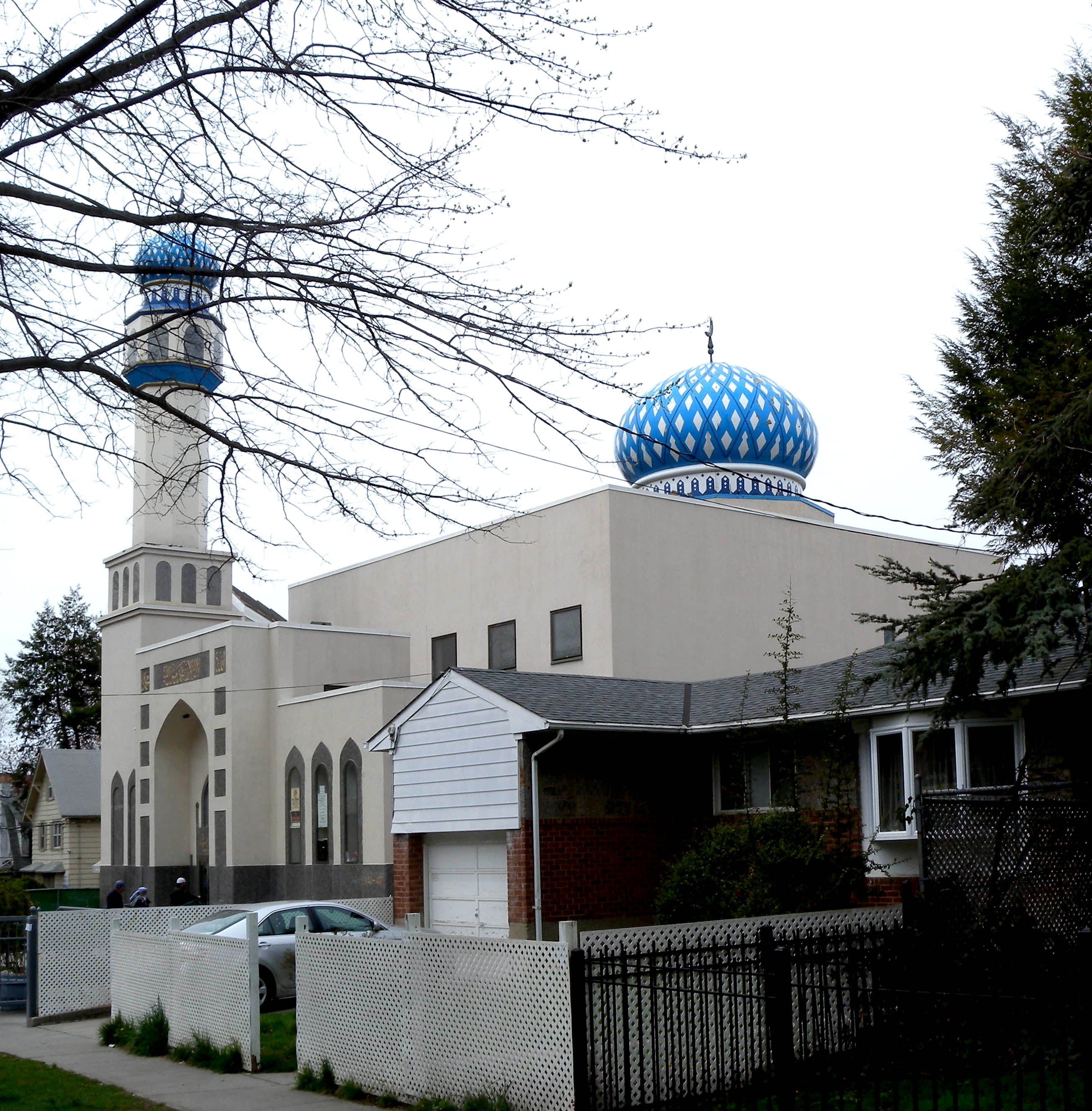 Looking west along 33rd Avenue, west of Parsons Boulevard, at a mosque in Flushing on a cloudy midday.